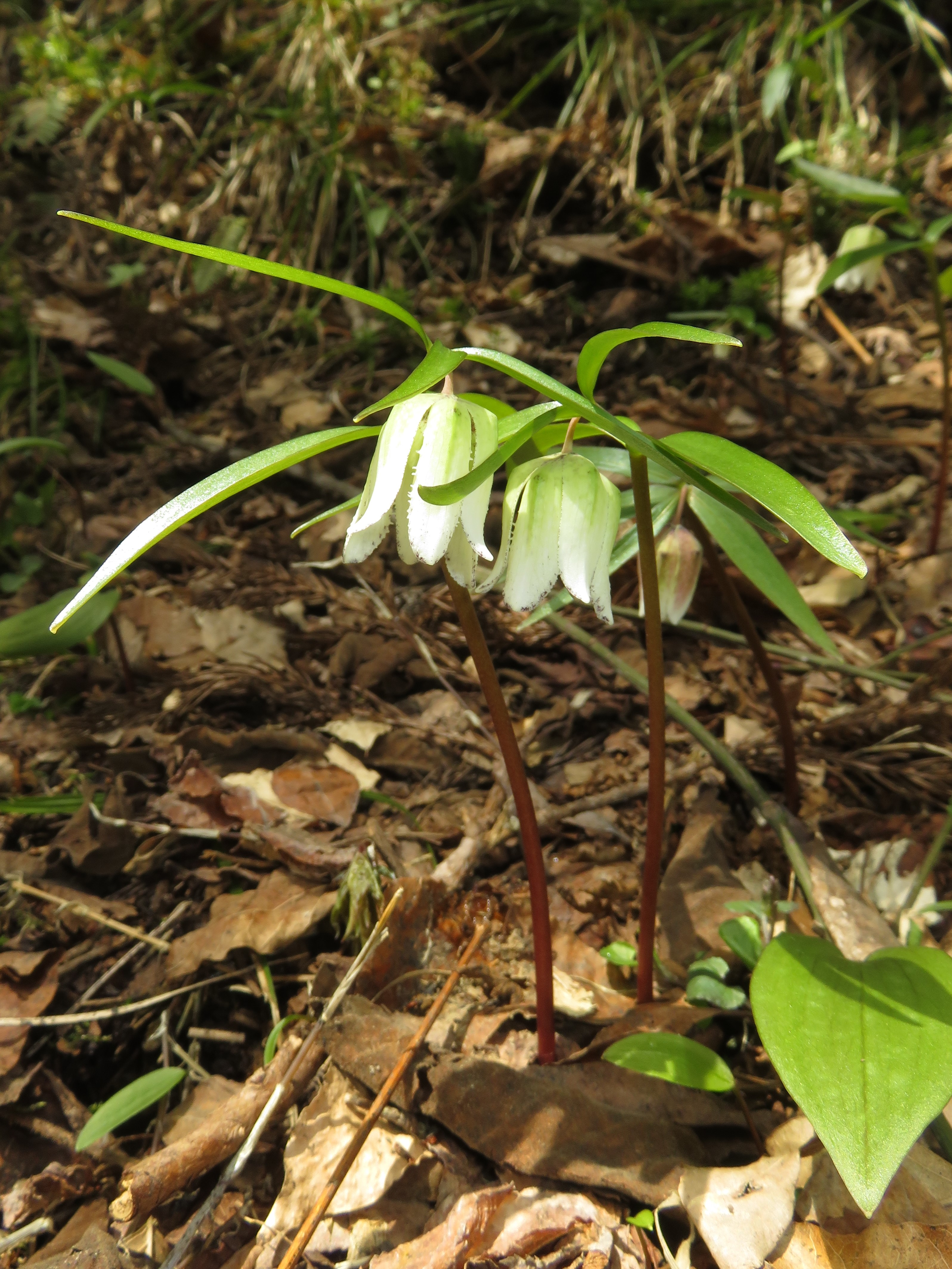 Fritillaria koidzumiana, Aizu area, Fukushima pref., Japan